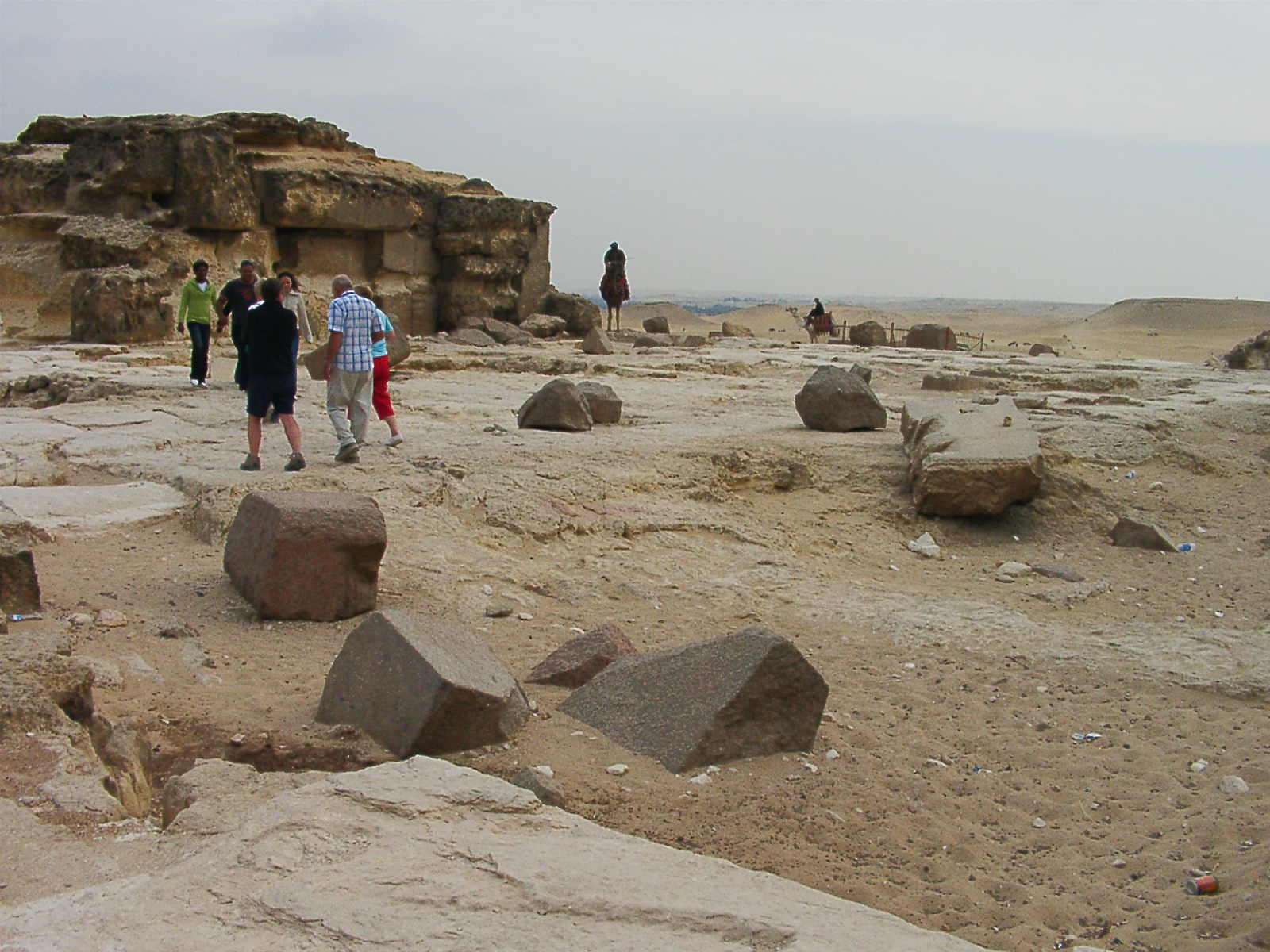 Courtyard of Khafre's mortuary temple form it's NW corner. SW corner located about the camel driver's standing location, center. Note the red granite pillar fragments.